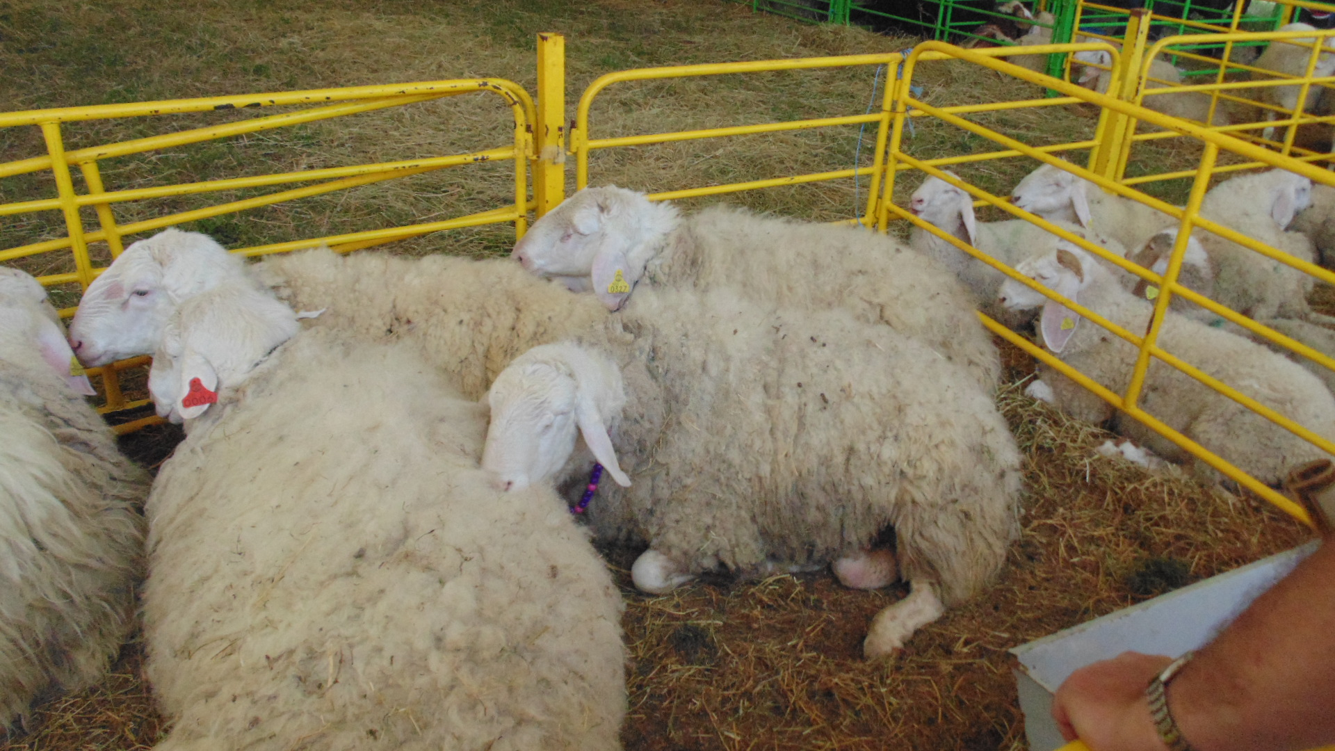 Assaf sheep